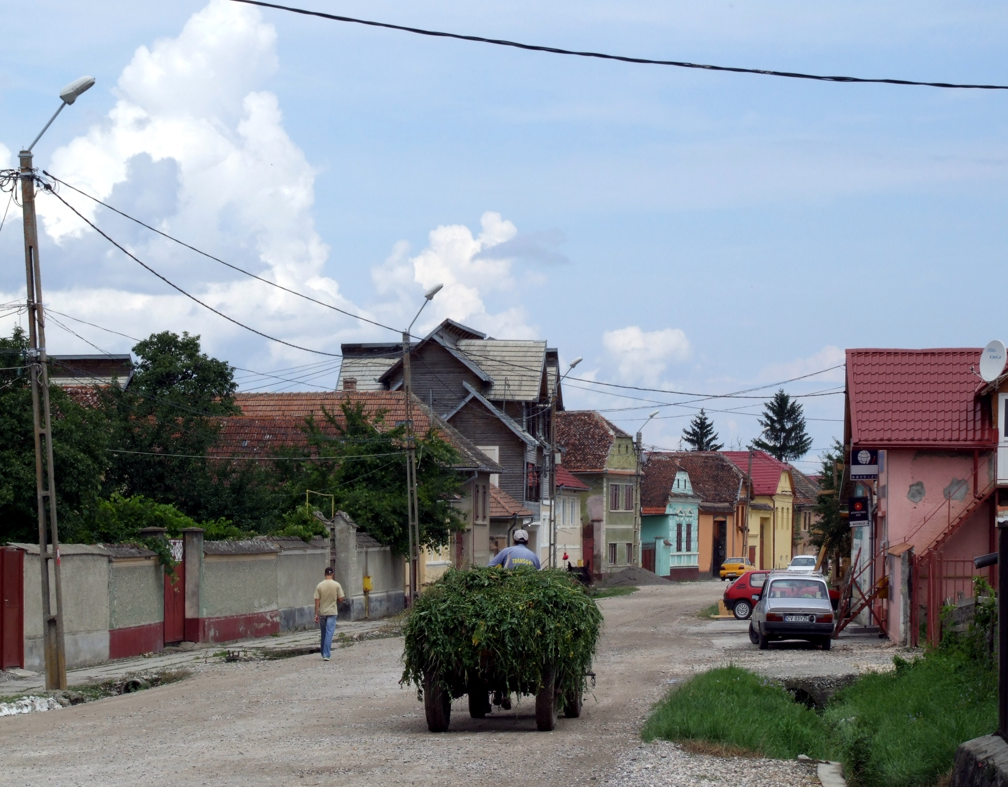 Prejmer (Tartlau) - street